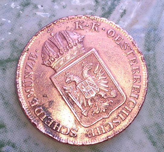 One side of a coin from 1848, Austria.